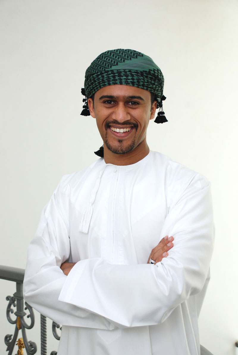 Tariq Al Barwani, profile photo